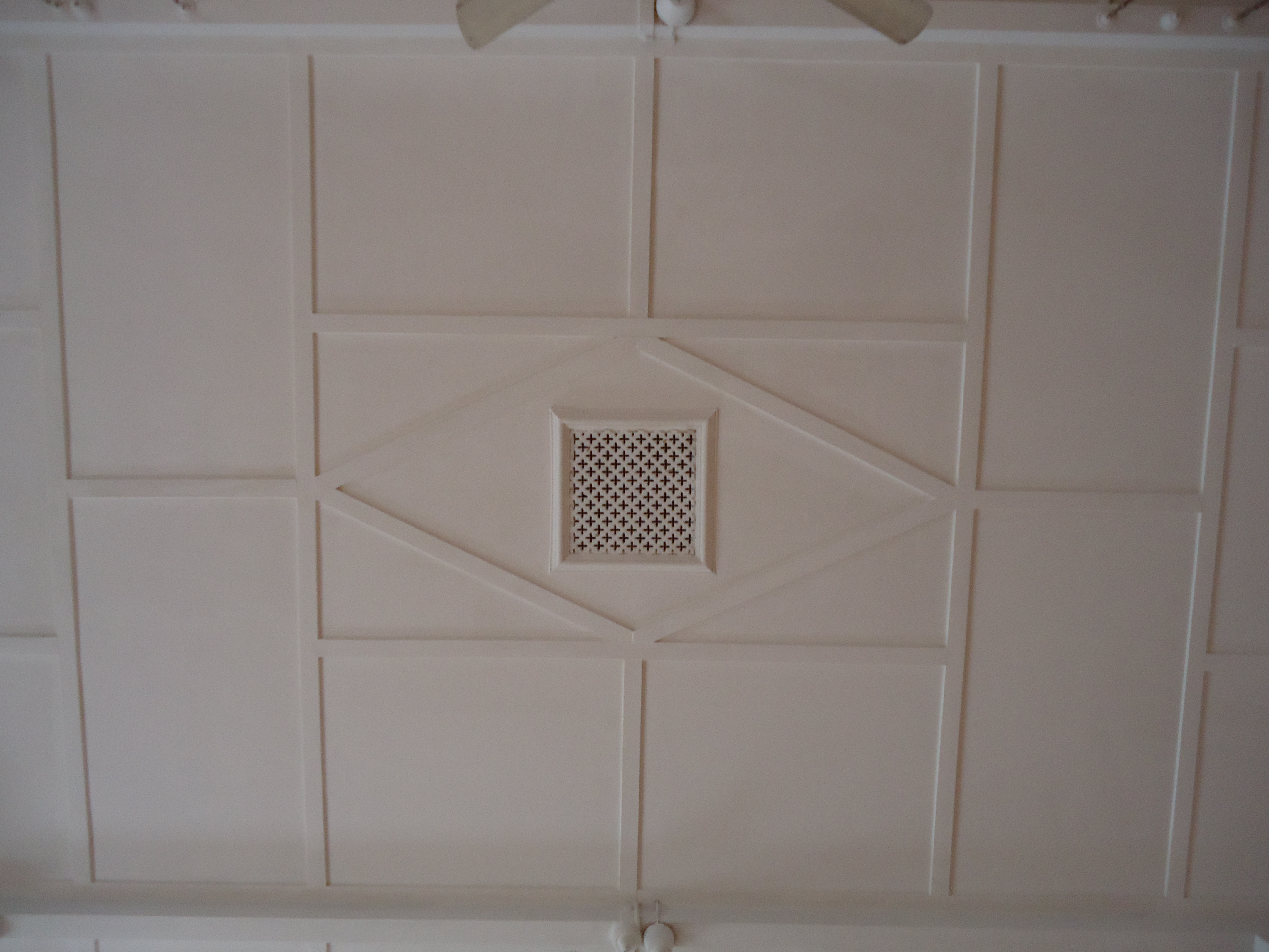 Architect: T. Pye